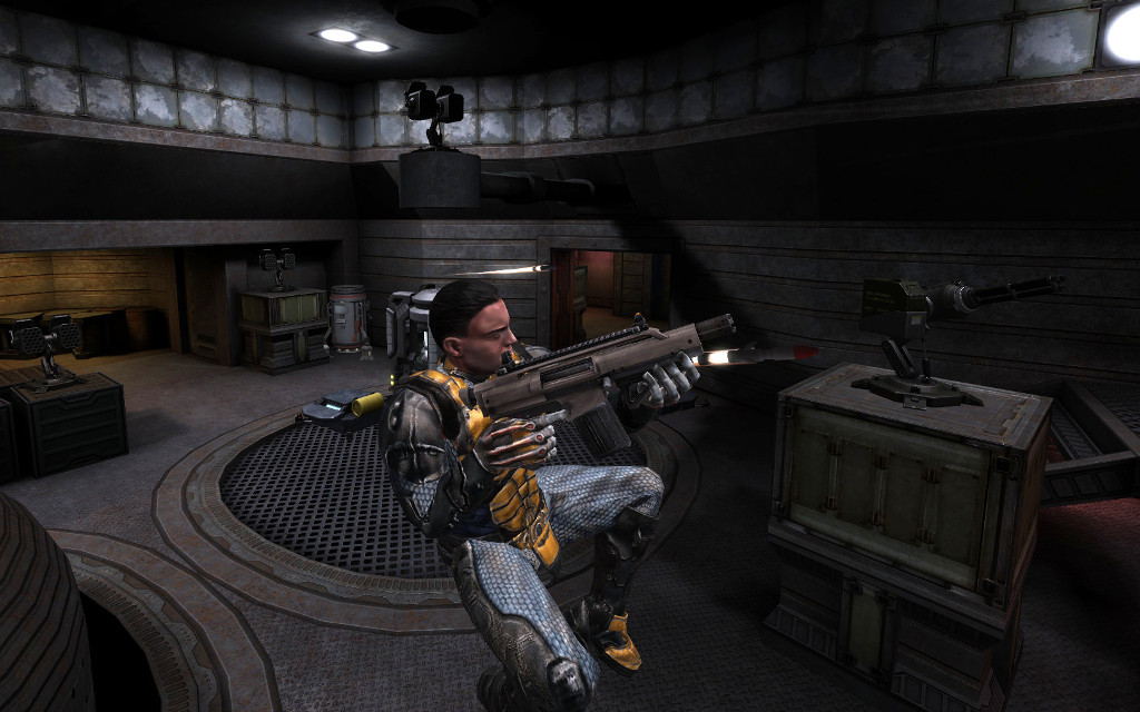 Alpha 35 screenshot of unvanquished